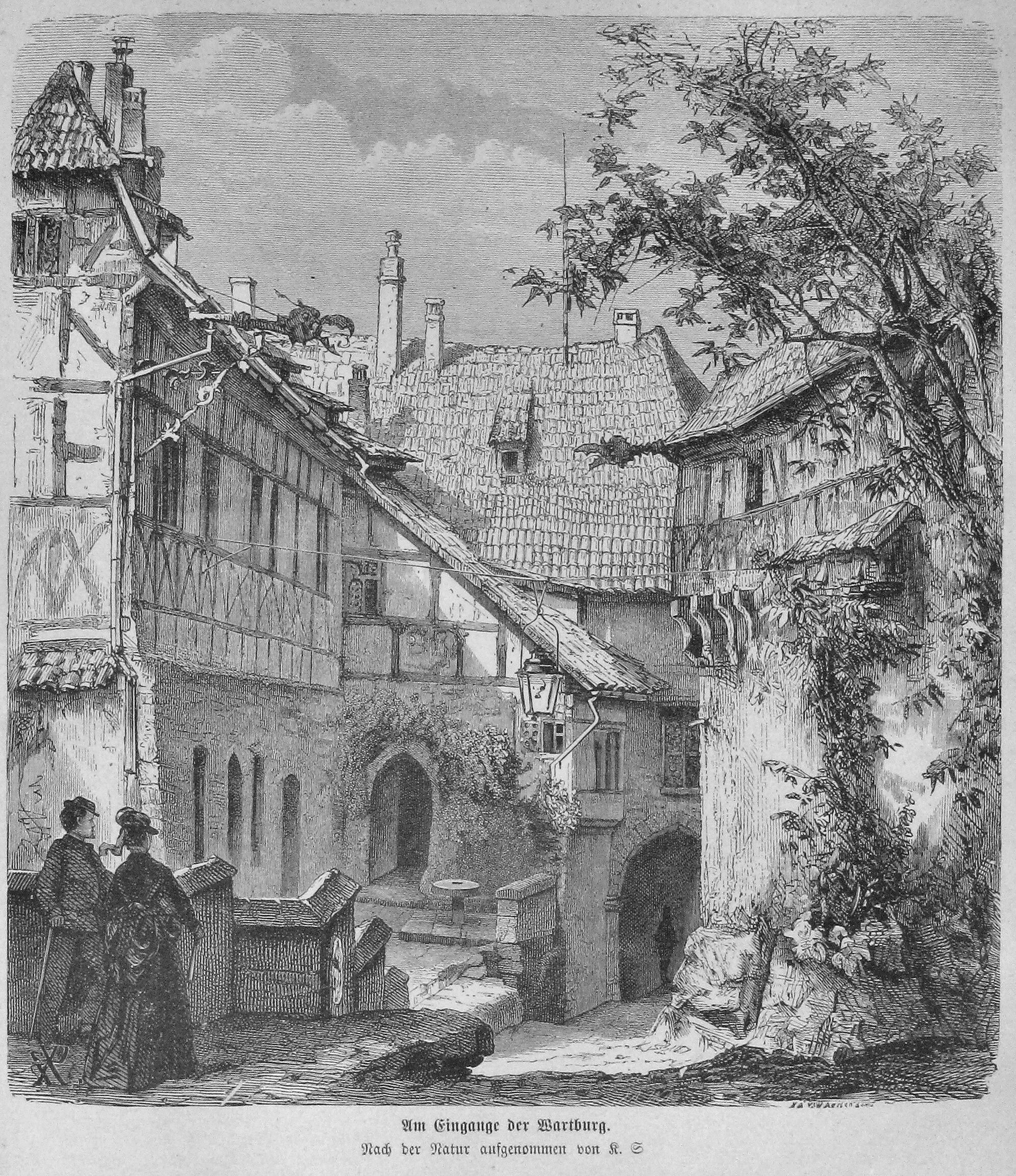 caption: "Am Eingange der Wartburg. Nach der Natur aufgenommen von K. S."